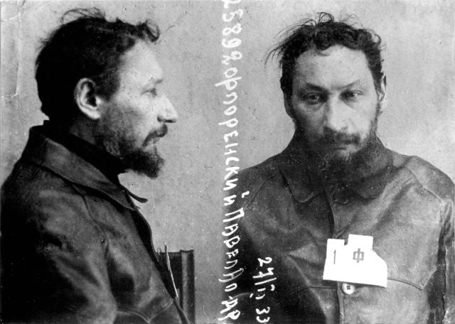 The russian philosopher Pavel Florensky shortly after his arrest by the GPU.